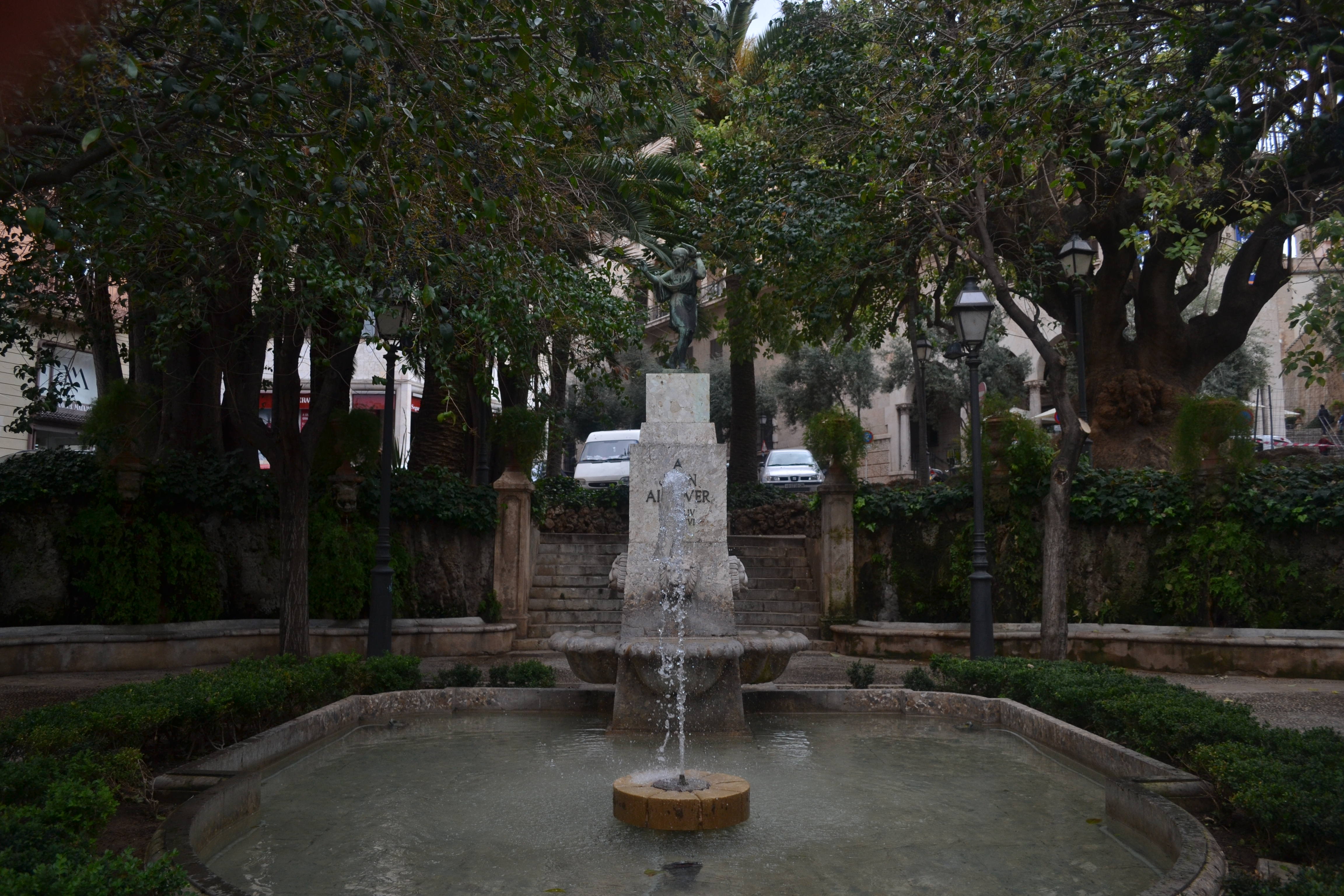 Monumento a Joan Alcover by Esteve Monegal in Plaza de la Reina, Palma de Mallorca.